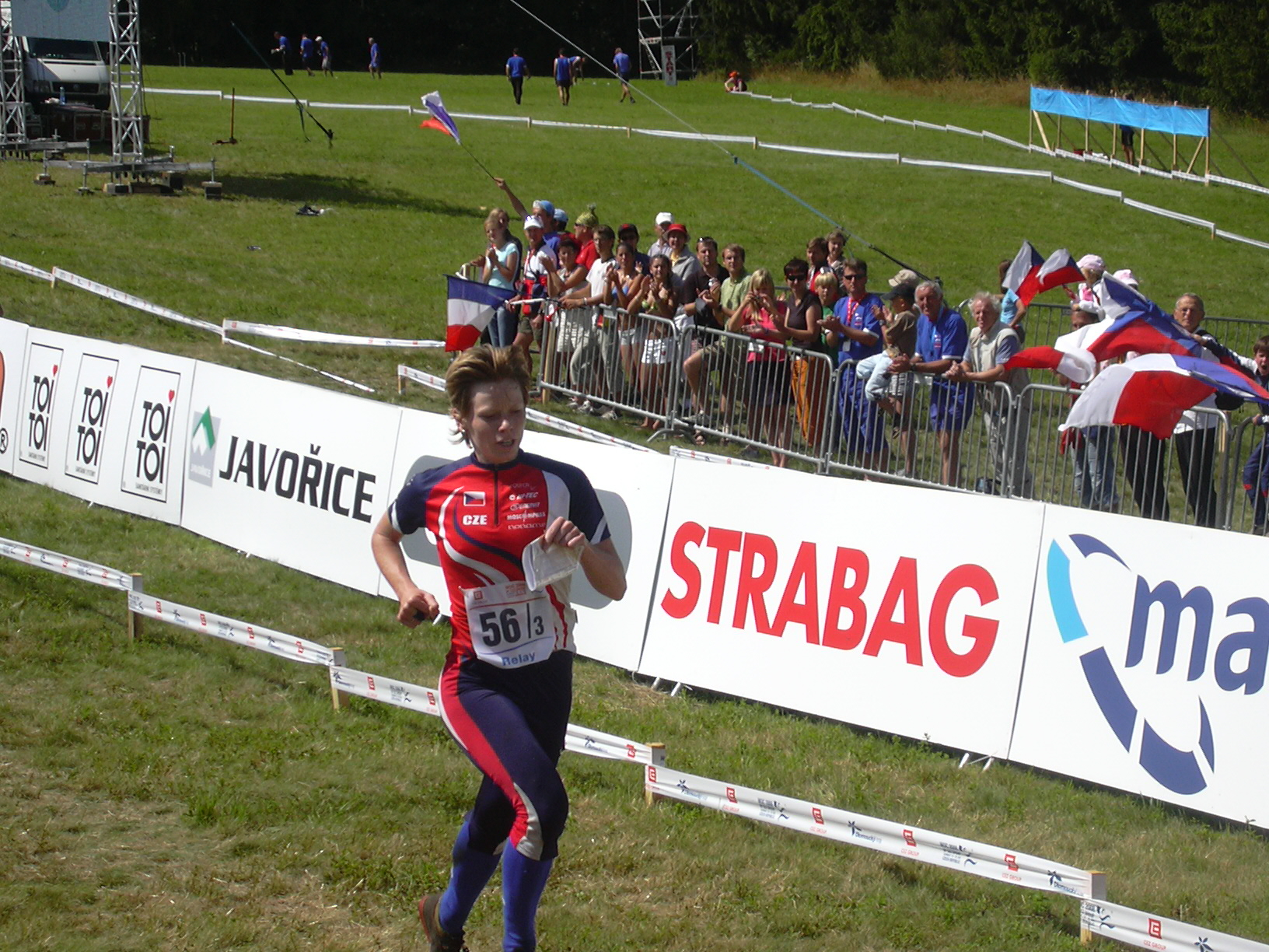 World Orienteering Championships 2008 in Olomouc, Czech Republic. On photo Dana Brožková.